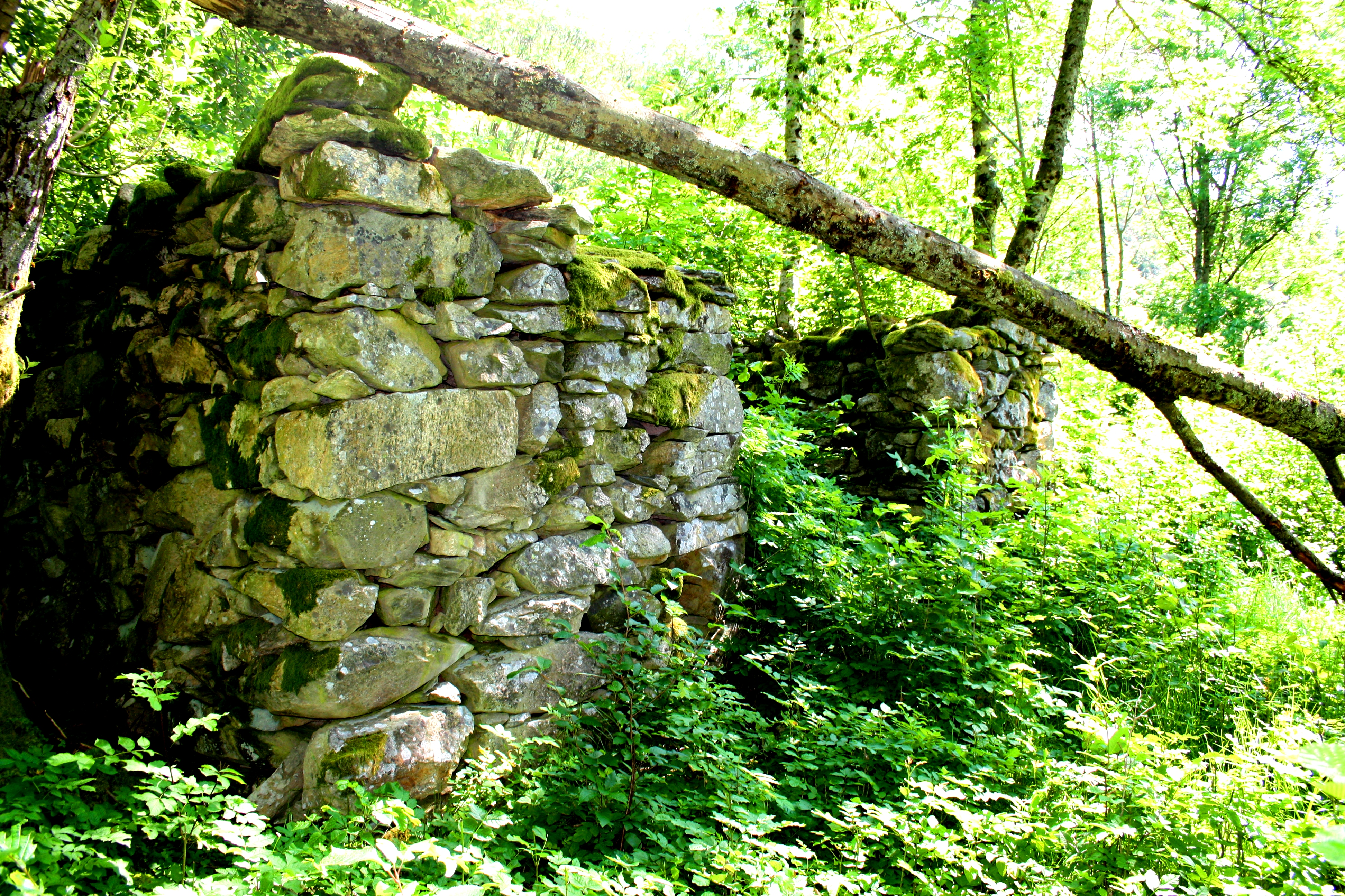 Foundations of one of the buildings at Lars Hertevigs birthplace at Borgøy, Tysvær.